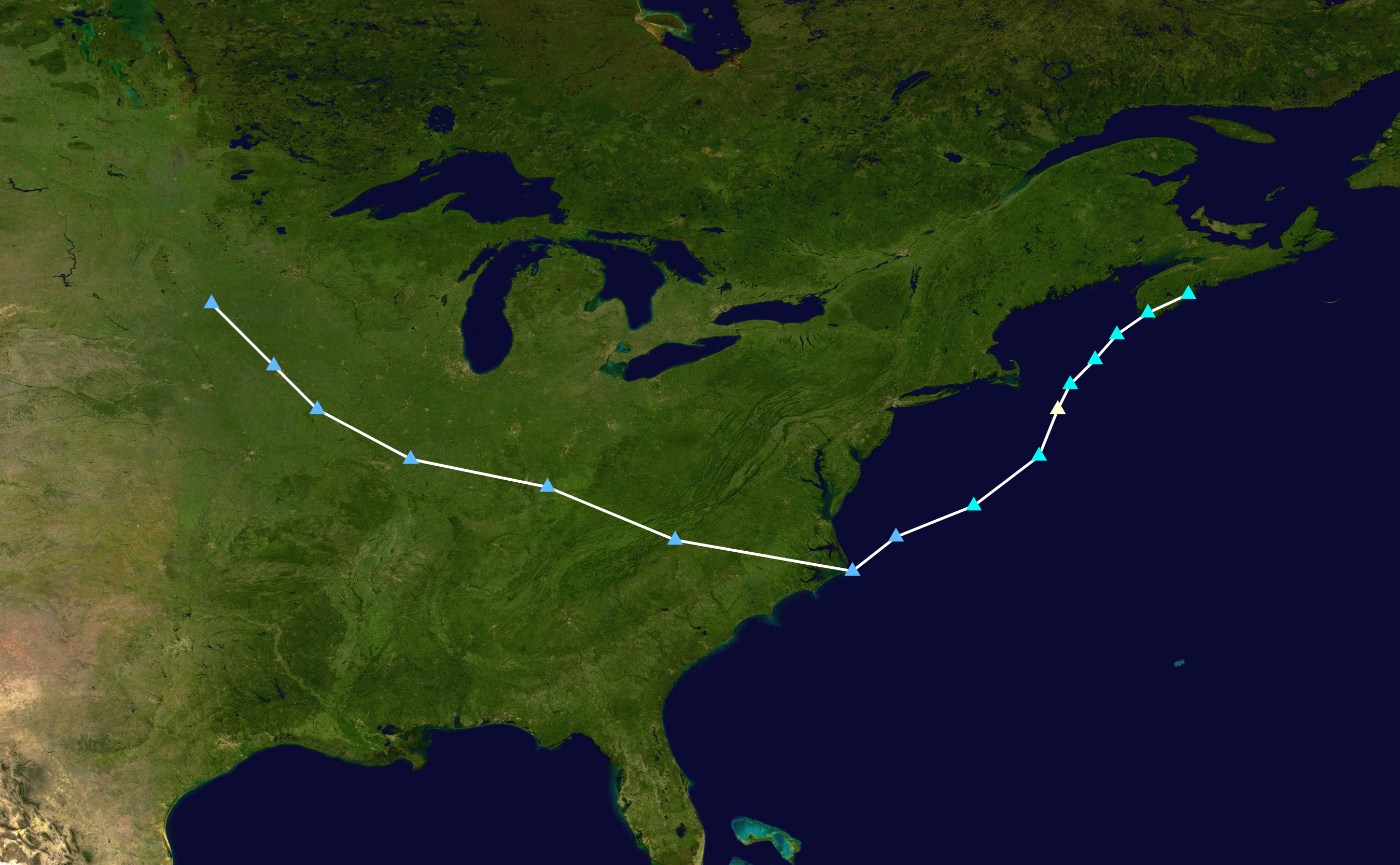 Track map of January 2015 Nor'easter of the 2014–15 North American winter. The points show the location of the storm at 6-hour intervals. The colour represents the storm's maximum sustained wind speeds as classified in the Saffir-Simpson Hurricane Scale (see below), and the shape of the data points represent the nature of the storm, according to the legend below. Saffir–Simpson hurricane wind scale Tropical depression≤38 mph≤62 km/h Category 3111–129 mph178–208 km/h Tropical storm39–73 mph63–118 km/h Category 4130–156 mph209–251 km/h Category 174–95 mph119–153 km/h Category 5≥157 mph≥252 km/h Category 296–110 mph154–177 km/h Unknown Storm typeTropical cycloneSubtropical cycloneExtratropical cyclone / Remnant low / Tropical disturbance